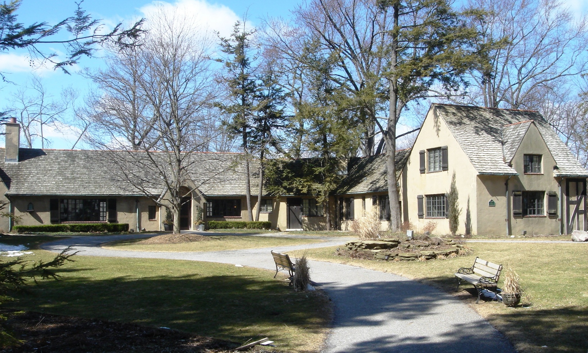 Gray - Spicer House, Farmington Hills, Mi.